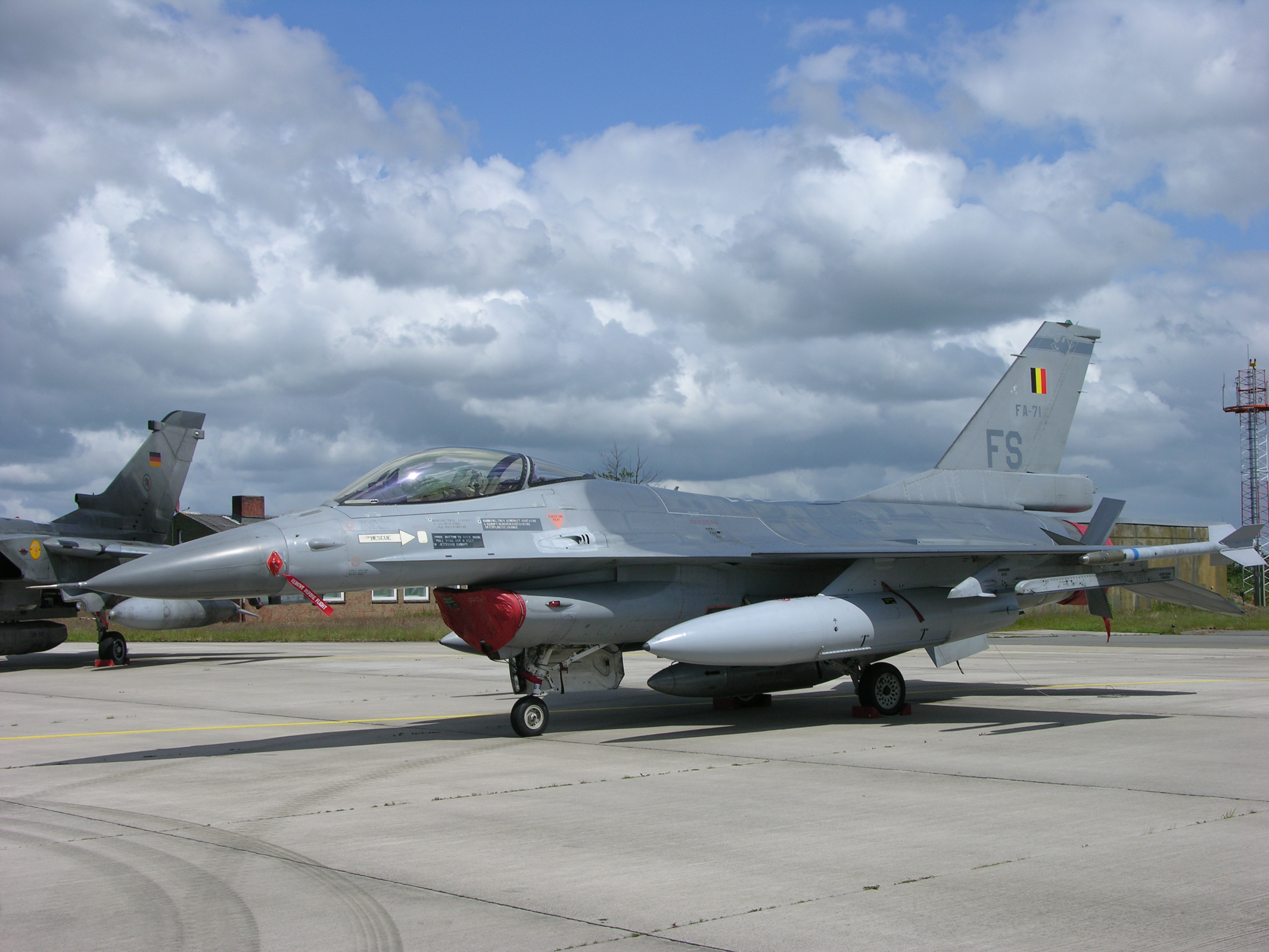 F-16AM of the Belgian Air Component of the Belgian Armed Forces based at Florennes with 2 Wing.